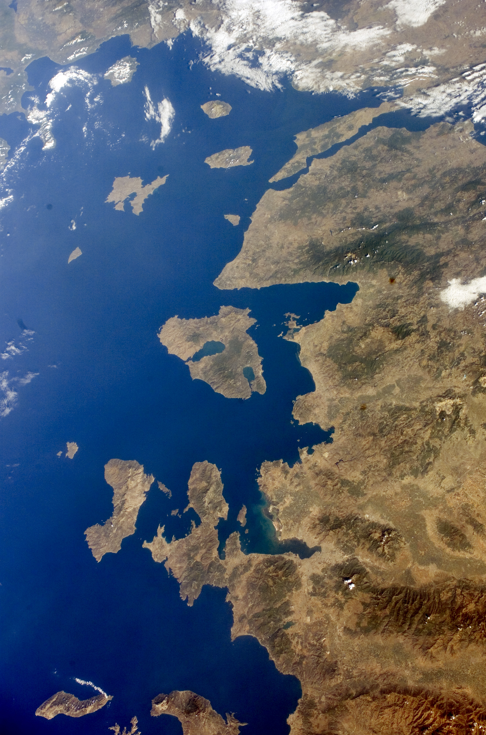 Turkey Western, Lesbos and Dardanelles.